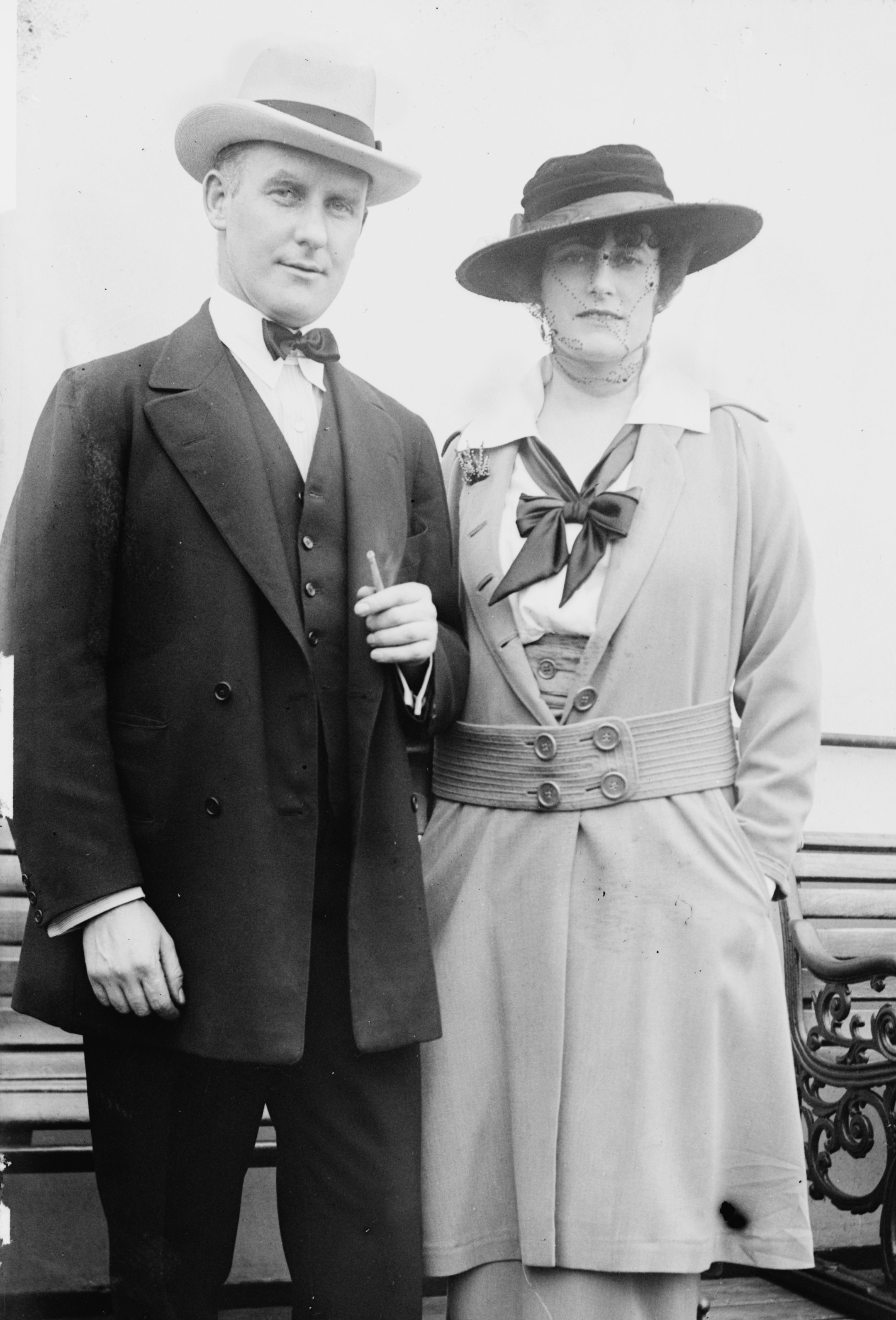 Capt. Harry Beresford and Kitty Gordon